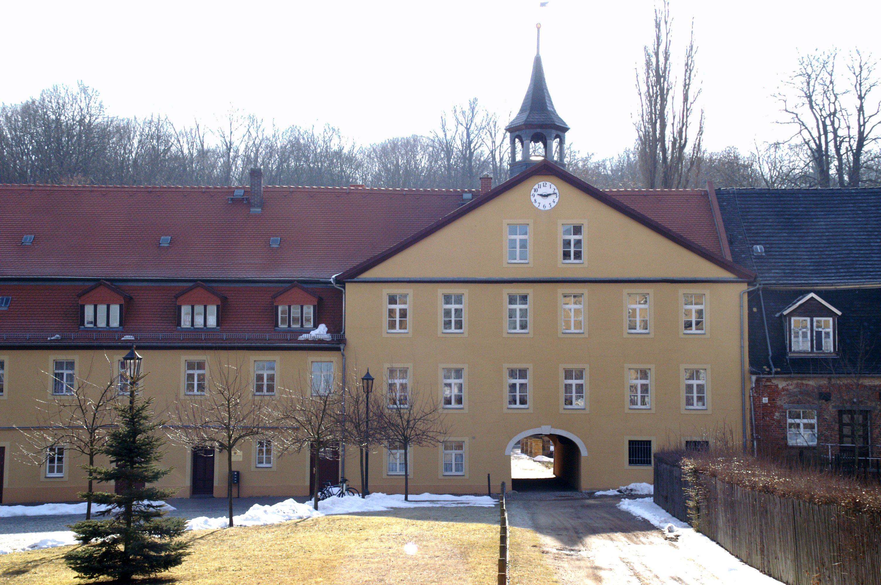 Side entrance to the court of Löbichau castle near Ronneburg, Germany.